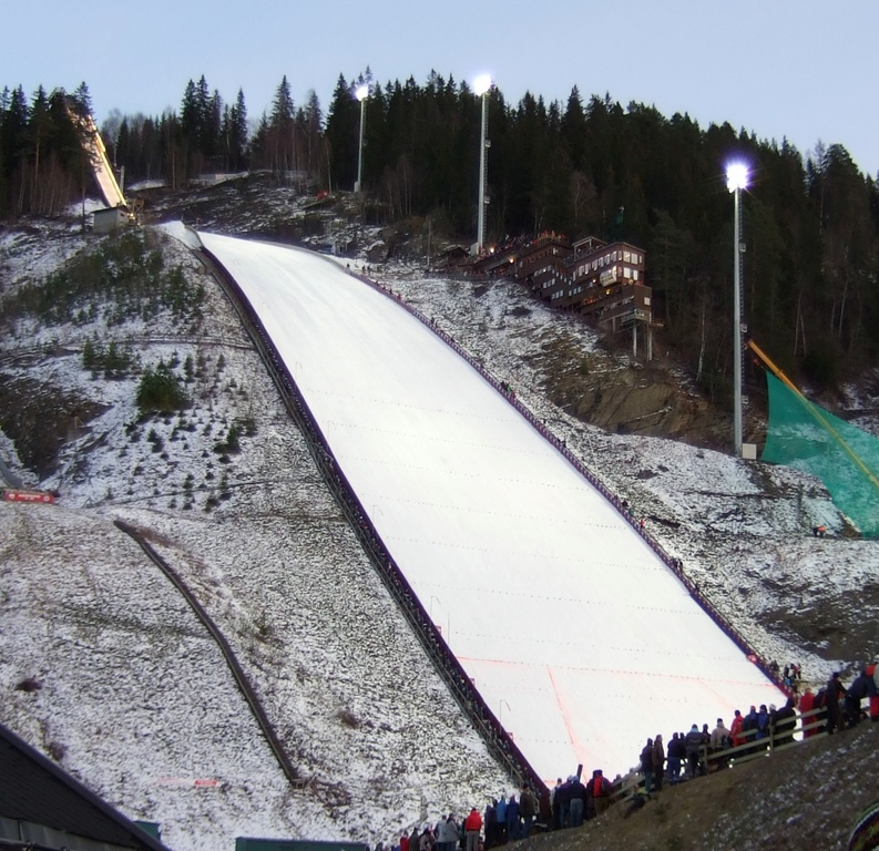 Vikersundbakken skiflying hill, Norway